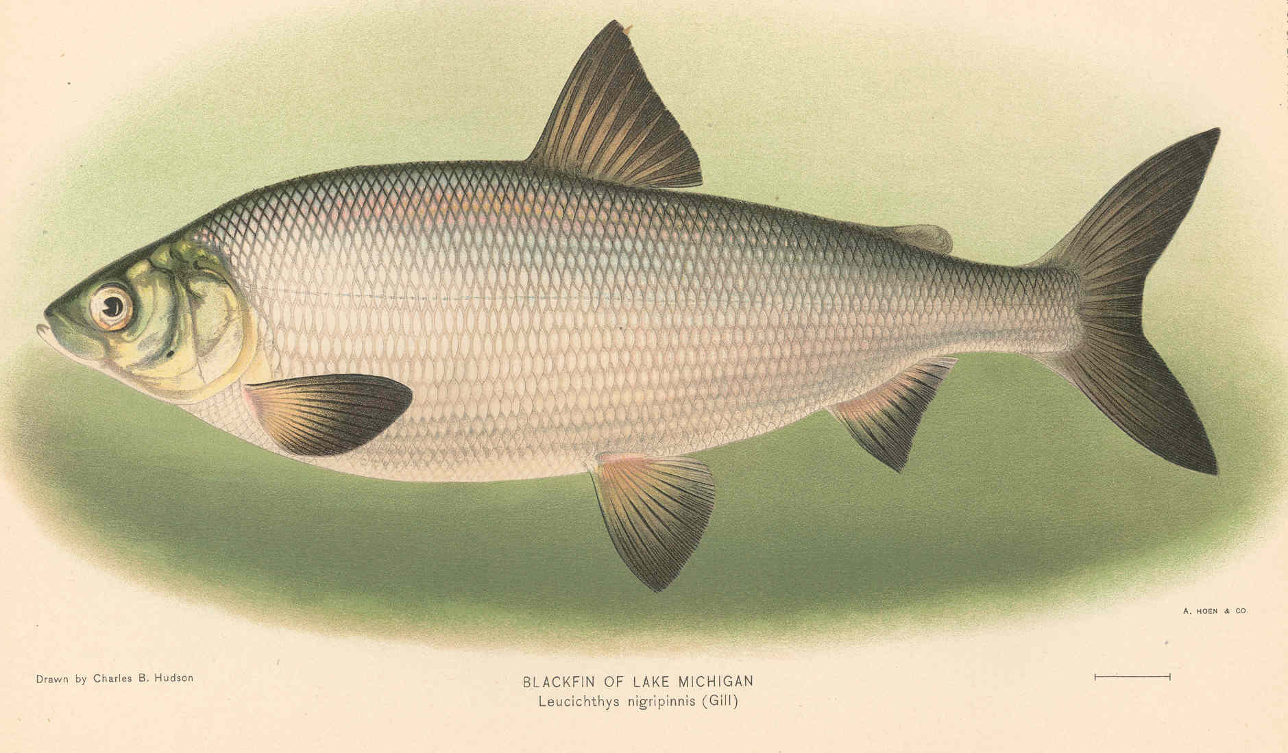 Blackfin of Lake Michigan : Leucichthys nigripinnis (Gill) Subject: Coregonus, Blackfin cisco Tag: Fish